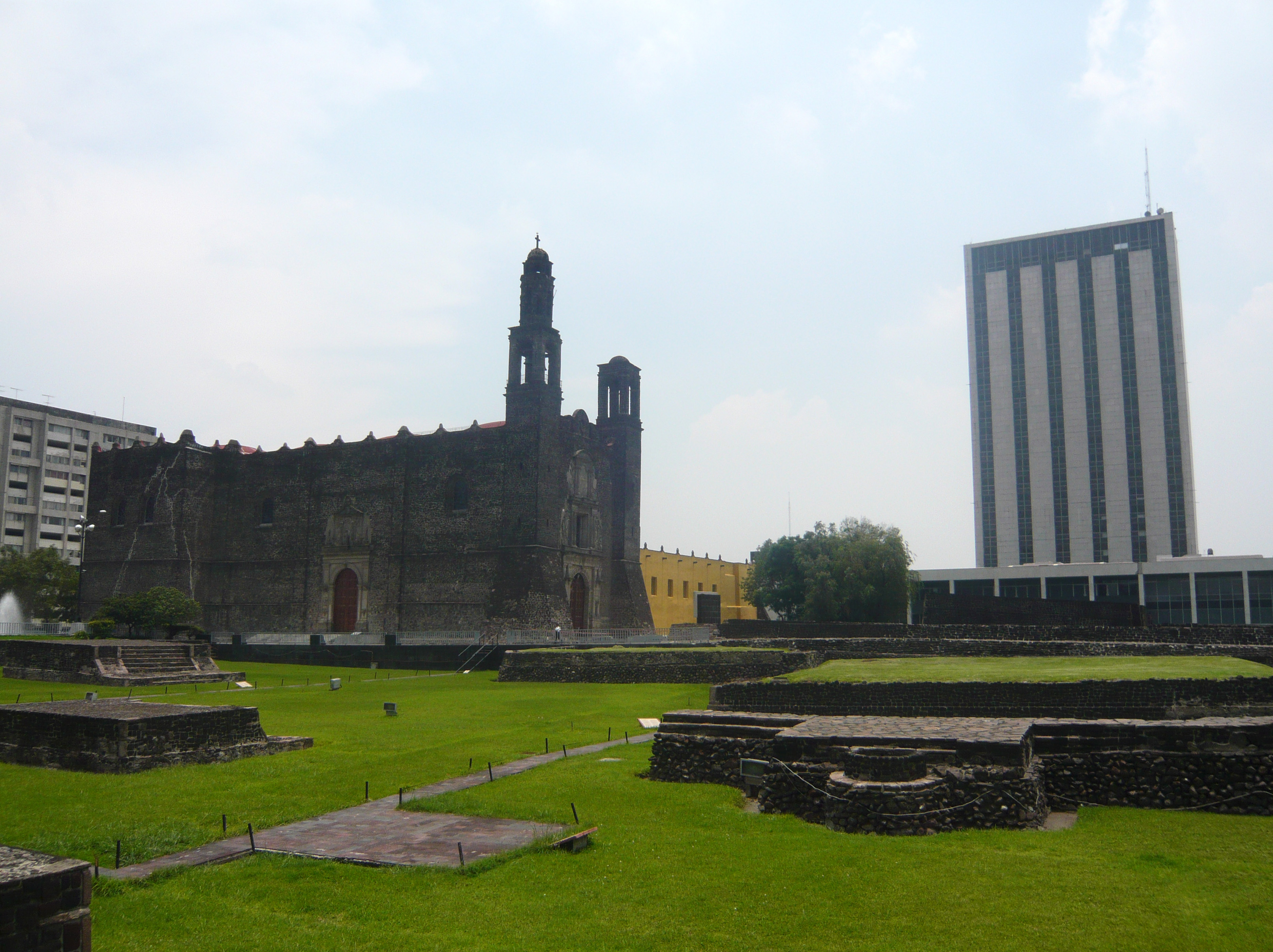 Plaza de las Tres Culturas in Tlatelolco, Mexico City